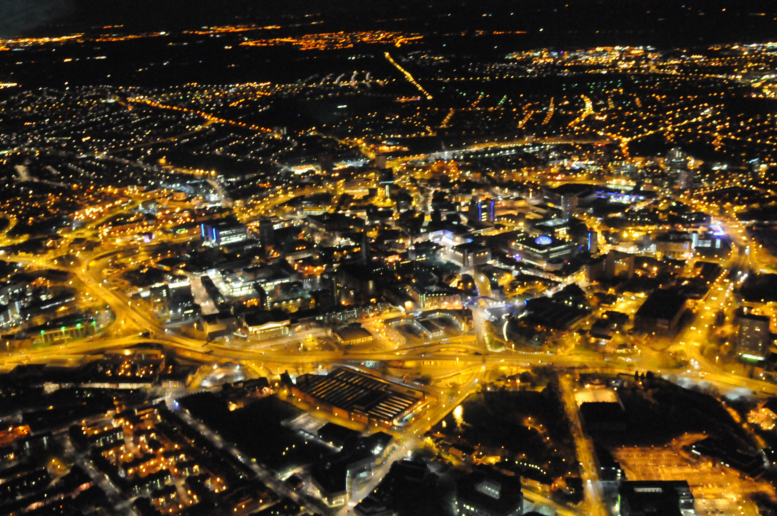 Coventry City Centre, at night